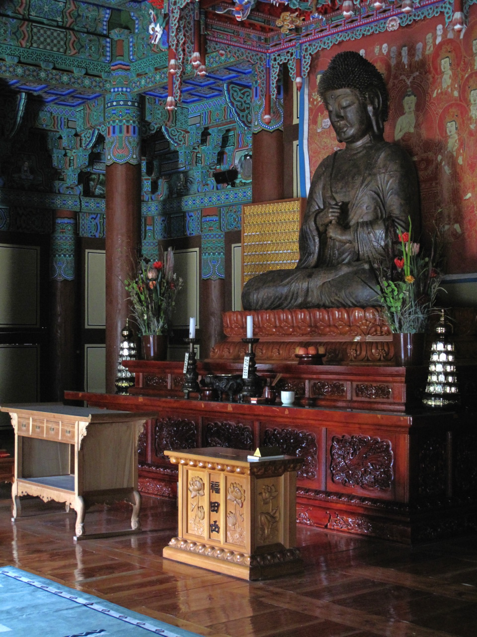 South Korean National Treasure no. 117, Borim Temple's seated iron Vairocana Buddha, 2.7 meters in height. An important inscription on the statue states the image was cast in 858 during the Great Silla dynasty and details the efforts and donations of the devout who supported the creation of the statue. Usually, the figure is gilded in bright gold and painted.